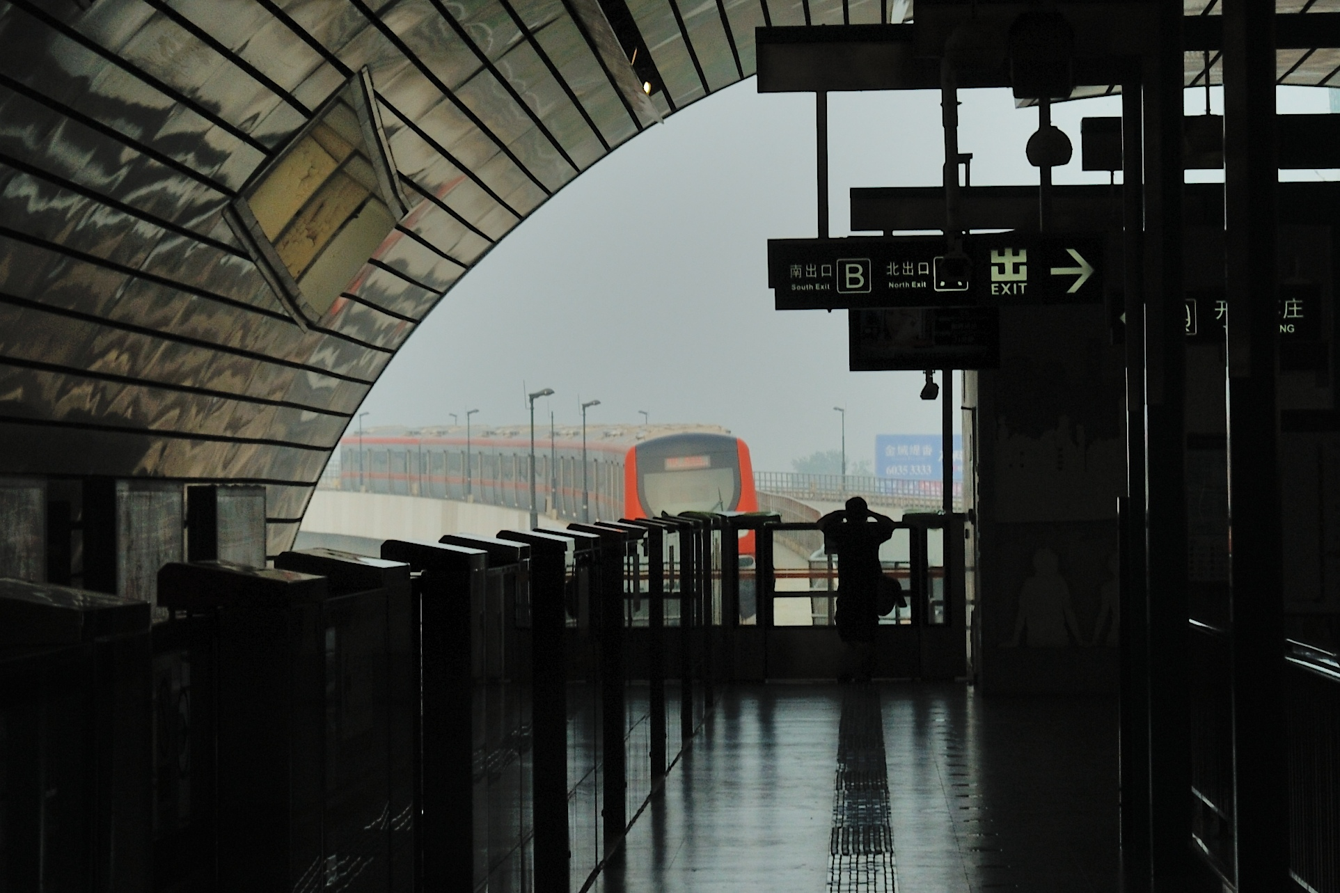 Fangshan Line train entering Changyang Station, Beijing